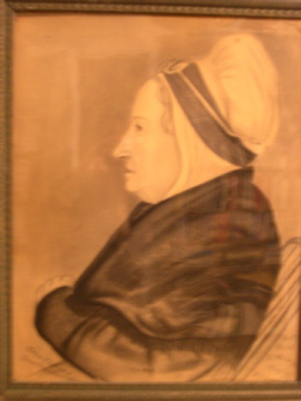 Jane Frazier, American pioneer woman